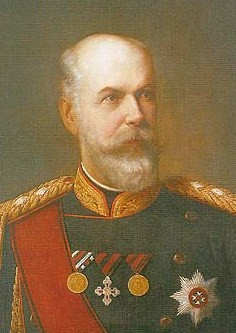 Portrait of Karl of Württemberg (1823-1891)